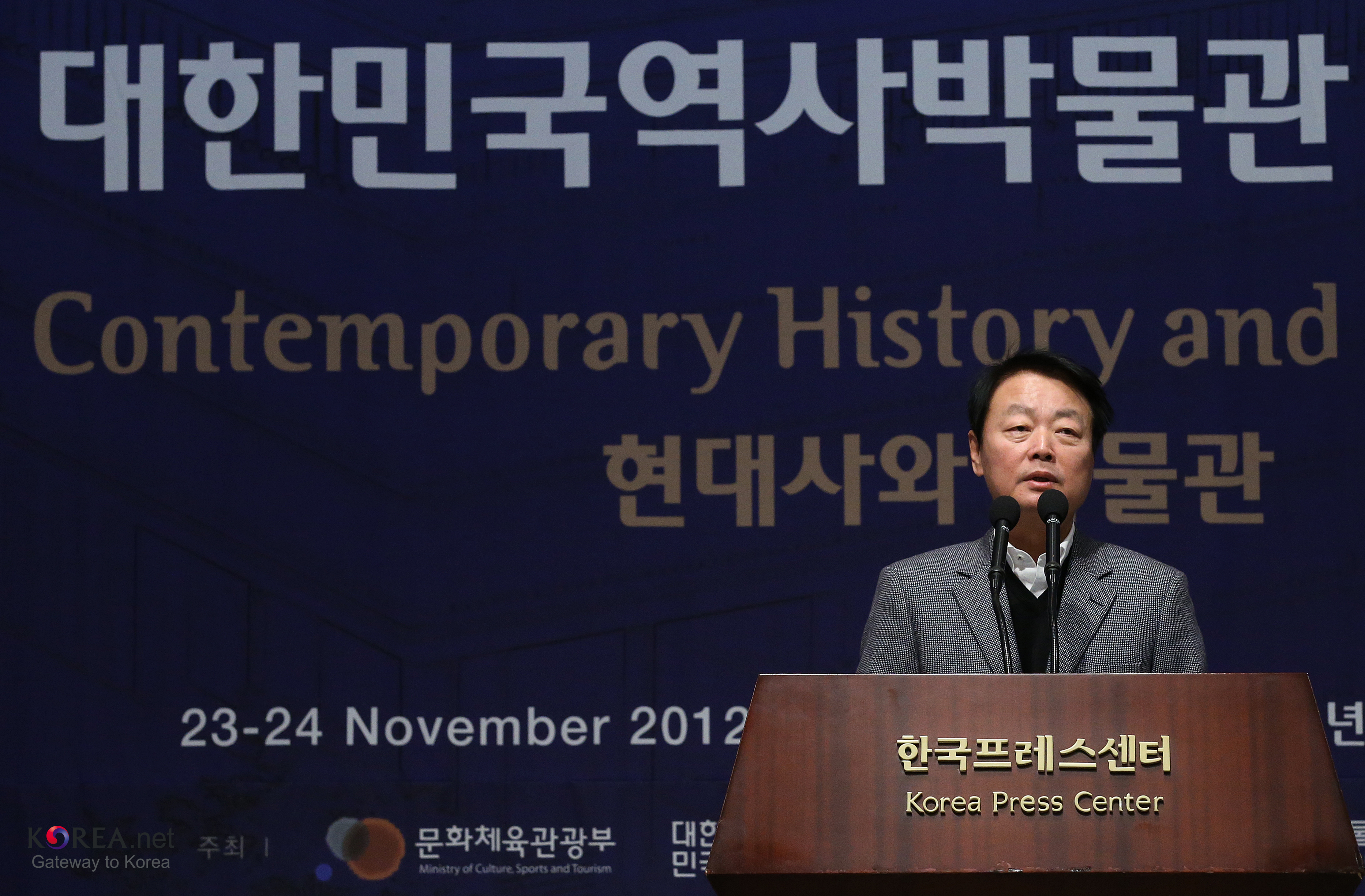 2012 International Symposium of The National Museum of Korean Contemporary History. Han Sunkyo, Chairman of Committee on Culture, Sports, Tourism, Broadcasting and Communications